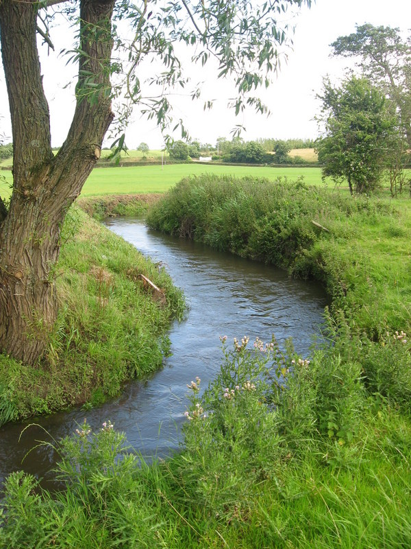 Delvin River at Gibblockstown, Co. Meath. A meander on the Delvin River. The bank on the right is Gibblockstown, Co. Meath; bank to the left is Tobertaskin in Co. Dublin.